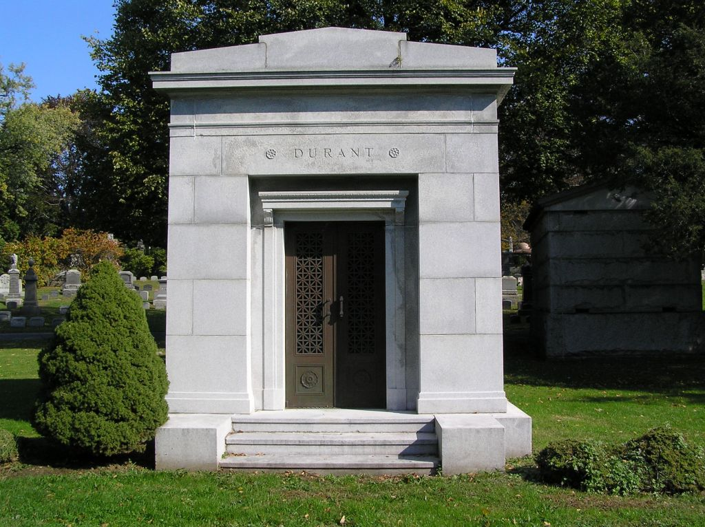 The mausoleum of William C. Durant in Woodlawn Cemetery, Bronx, NY